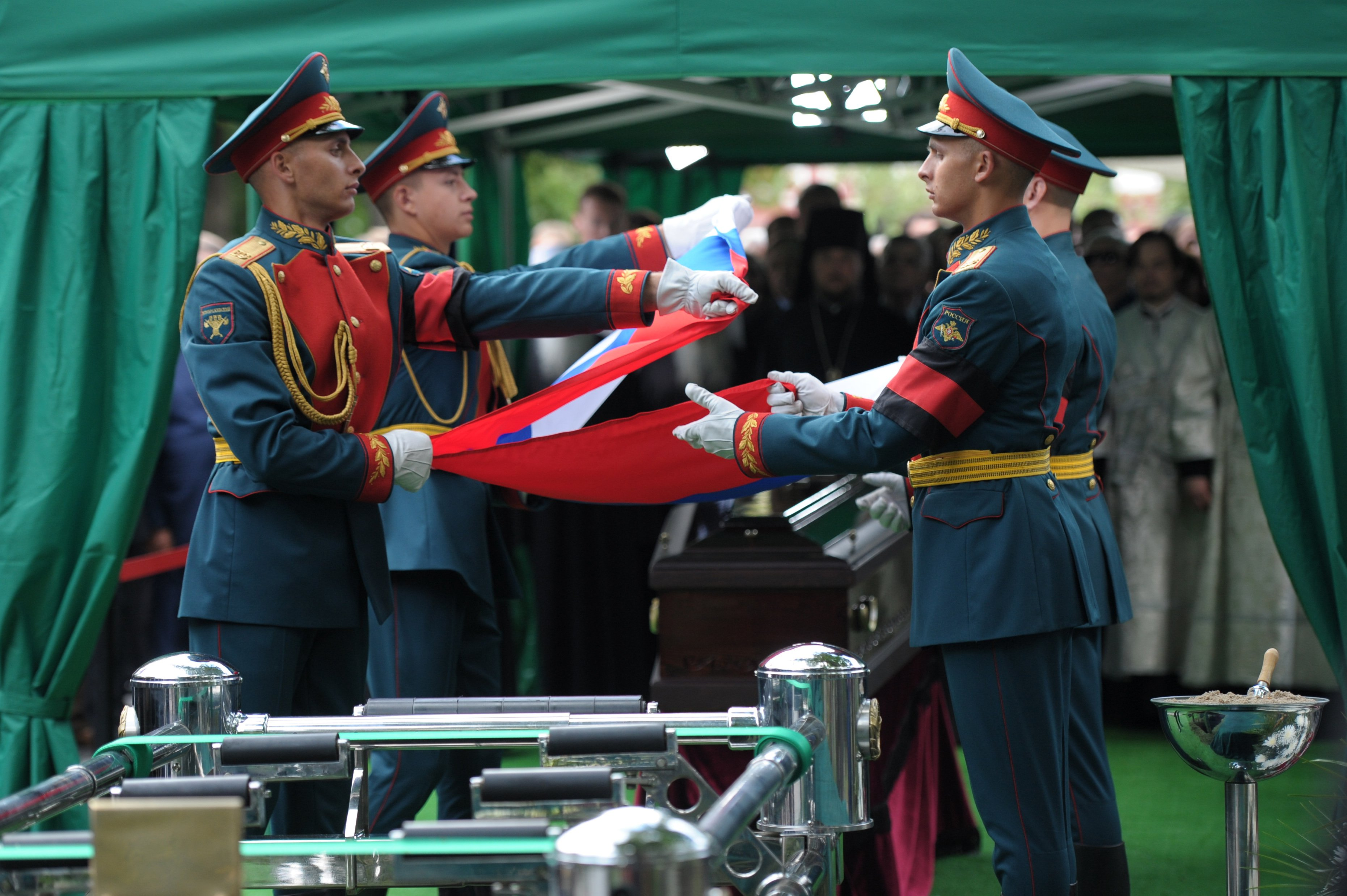 Farewell to Yevgeny Primakov